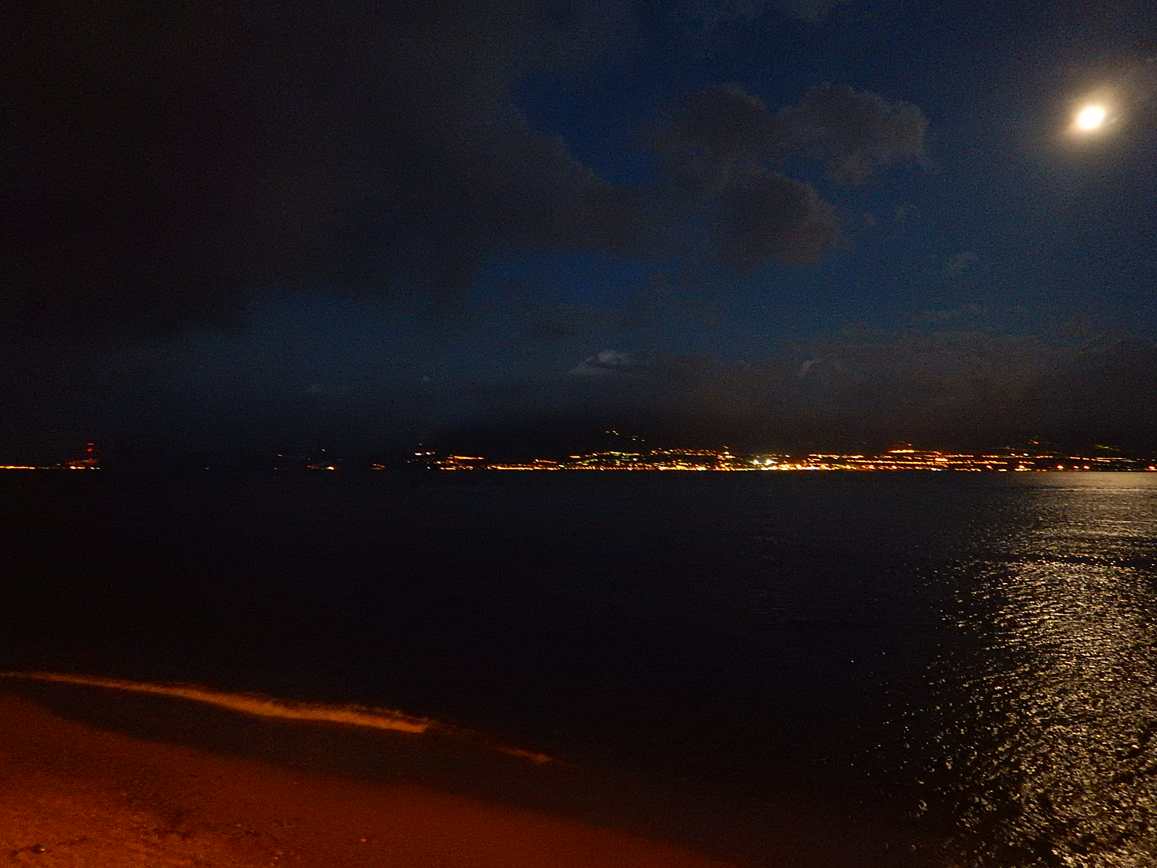 full moon on the Strait of Messina